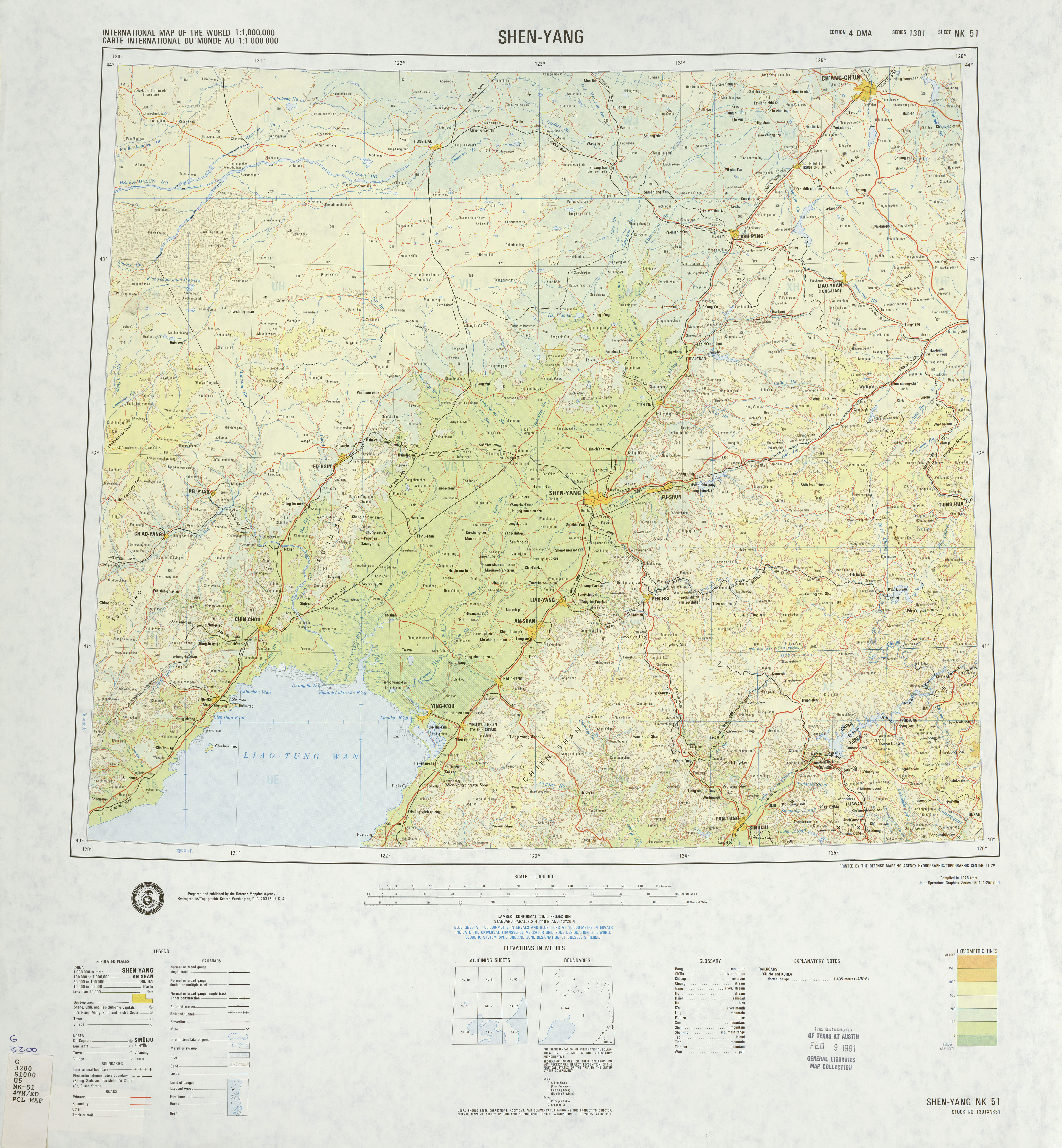 Map from the International Map of the World 1:1,000,000